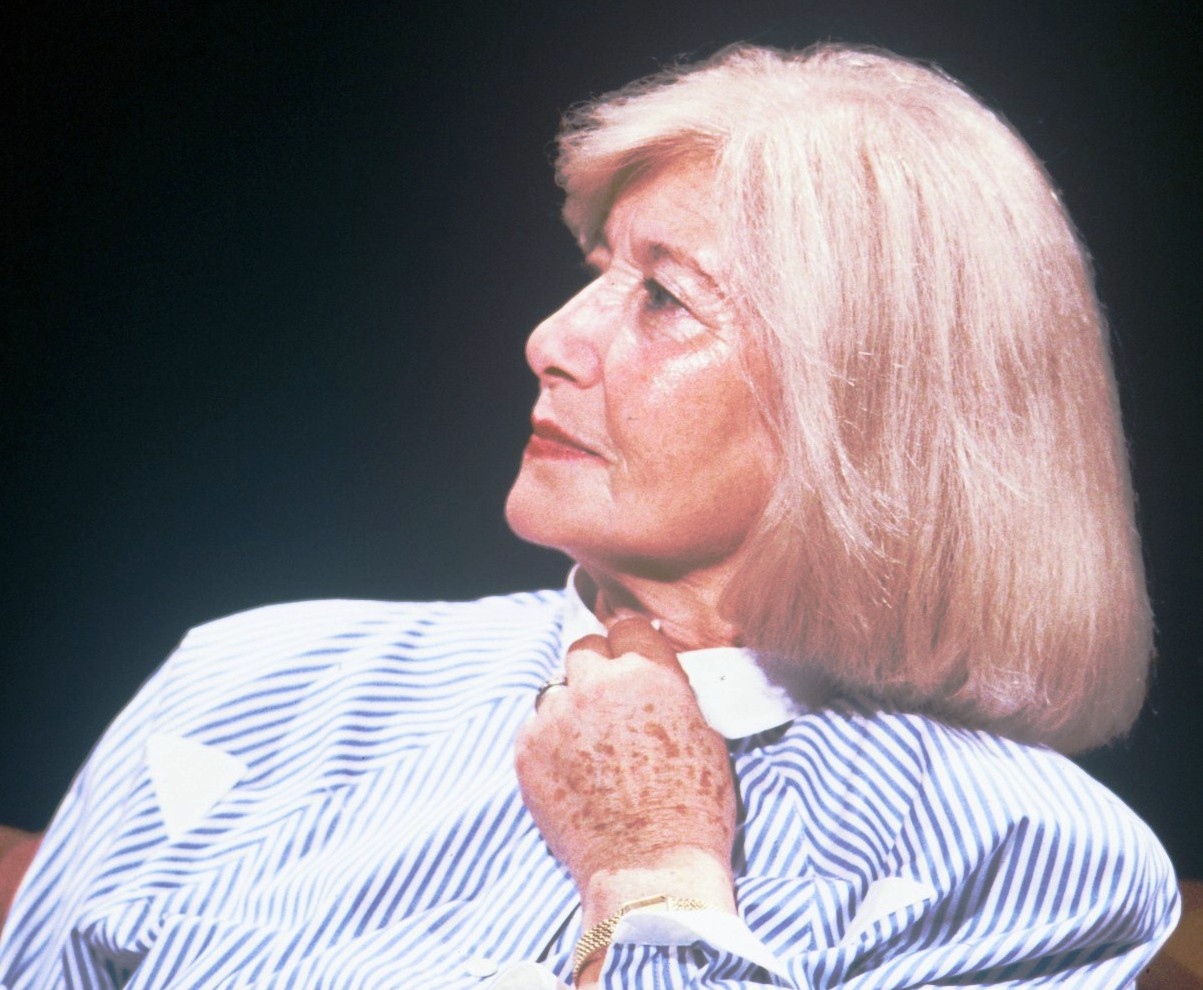 Description: Gena Turgel appearing on After Dark in 1987. More here.